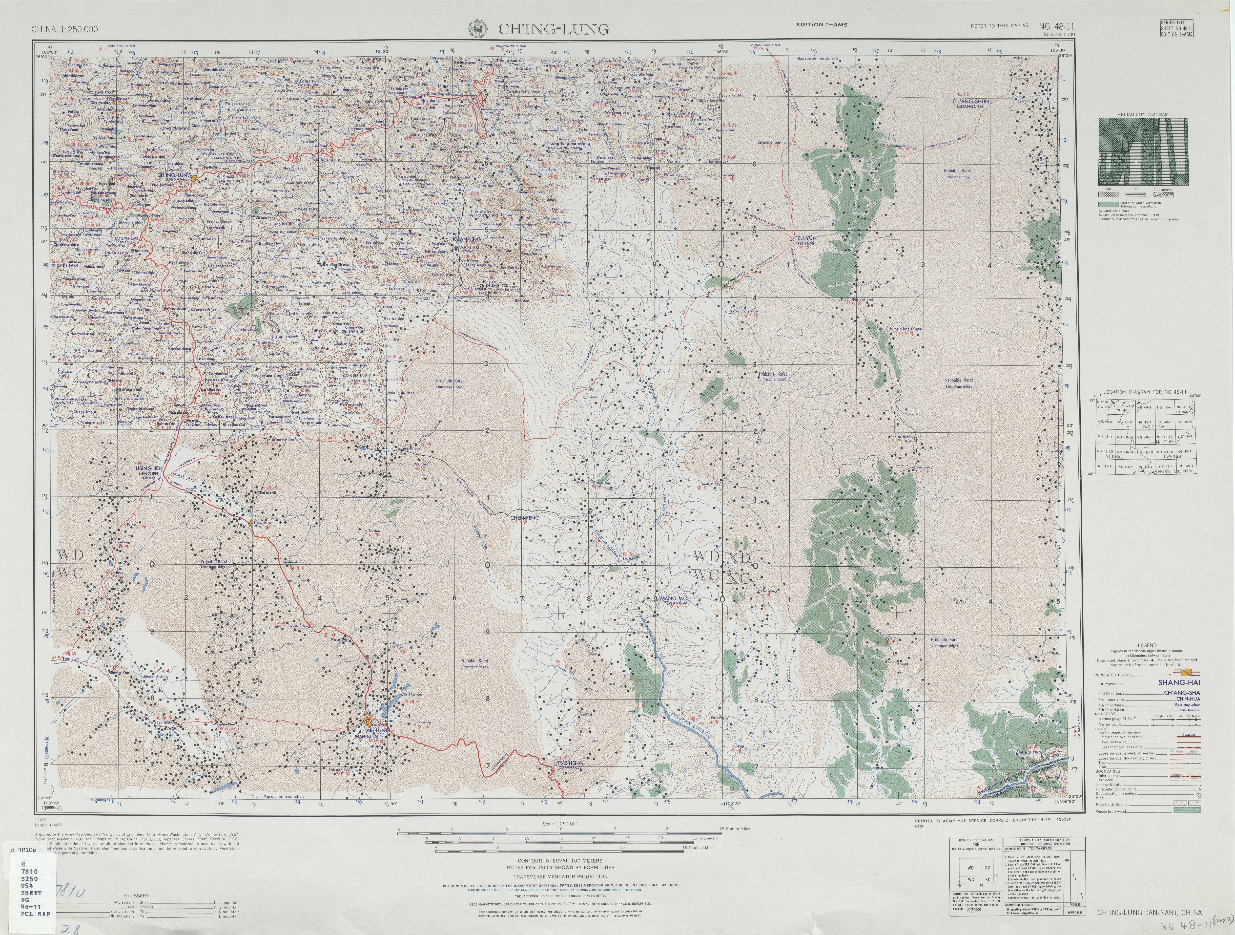 China AMS Topographic Maps